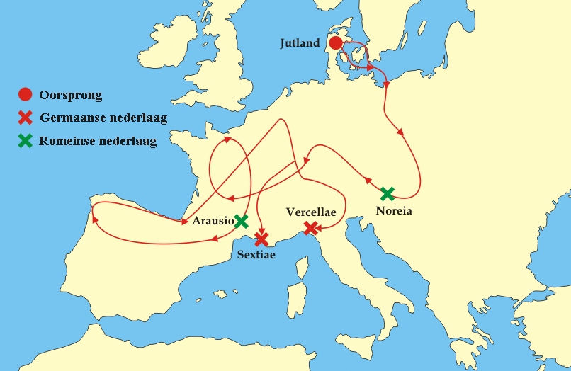 Dutch translation of Image:Cimbrians and Teutons.png